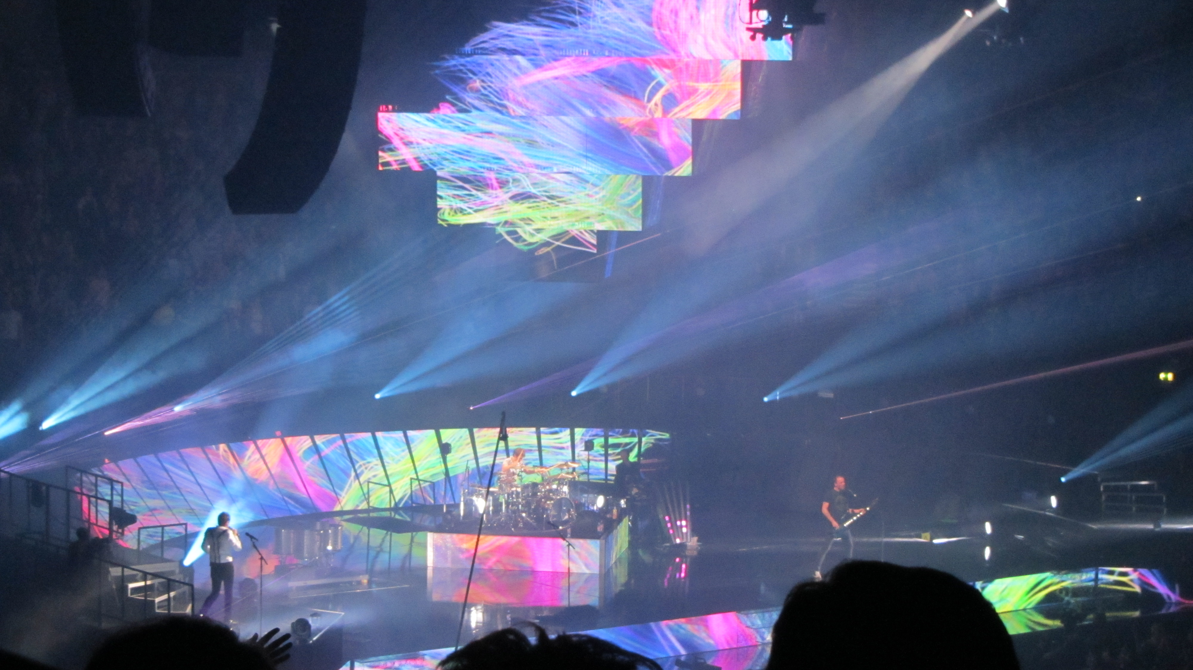 Muse playing live